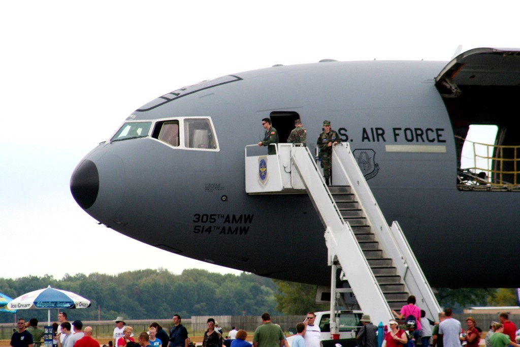 People attending the Airpower Over the Midwest Airshow line up to look at a static display of a KC-10 Extender from the 305th Air Mobility Wing at Joint Base McGuire-Dix-Lakehurst, N.J., while a B-2 Spirit from Whiteman Air Force Base, Mo., flies overhead Sept. 11, 2010, at Scott AFB, Ill. Tens of thousands of people attended the two-day airshow at Scott AFB. The KC-10 is the Air Force's largest air refueling tanker and is mainly stationed at two Air Mobility Command bases to include Joint Base MDL and Travis Air Force Base, Calif.